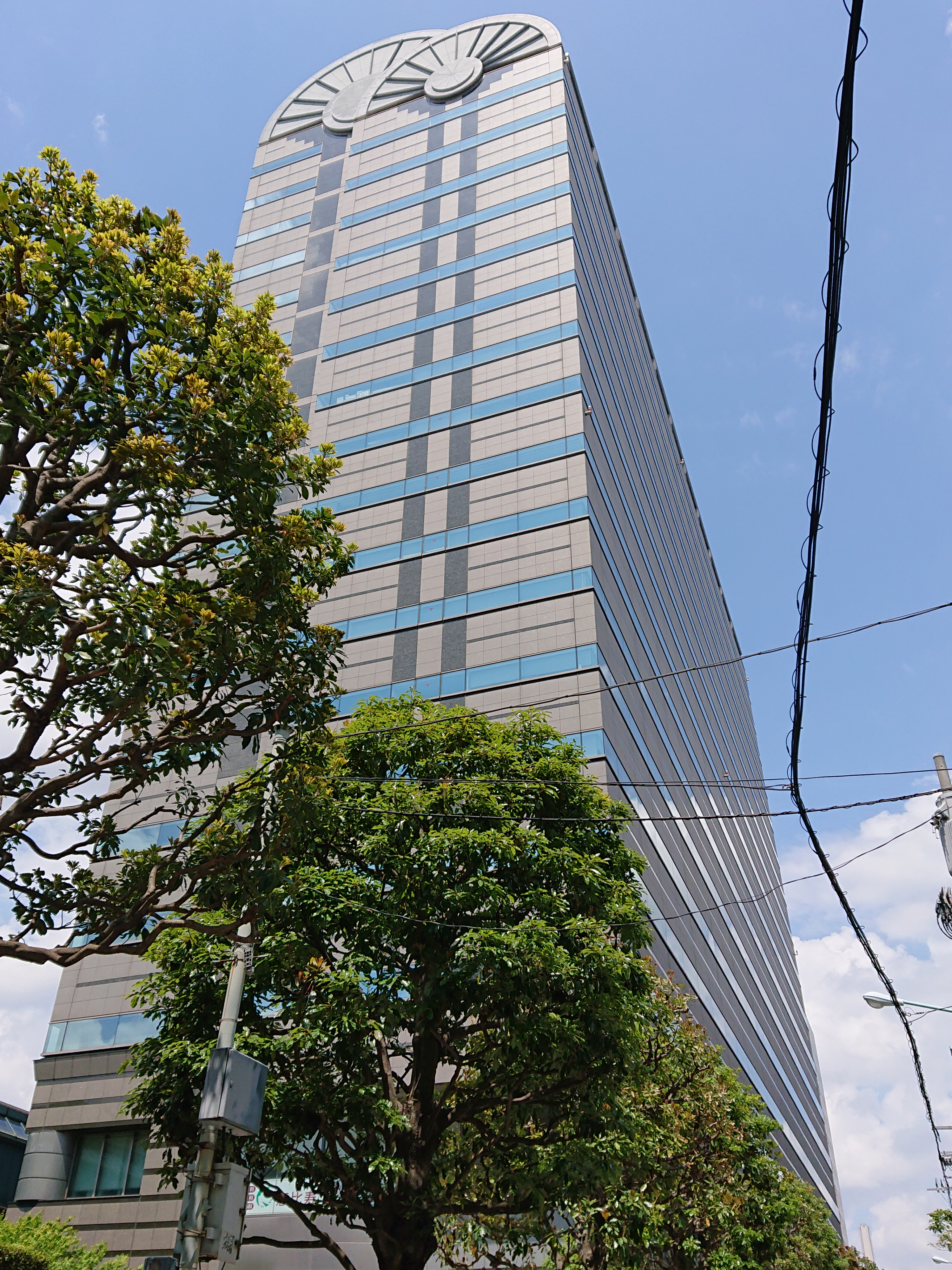 Ebisu Neonart, at 4-4-9 Ebisu, Shibuya, Tokyo, Japan